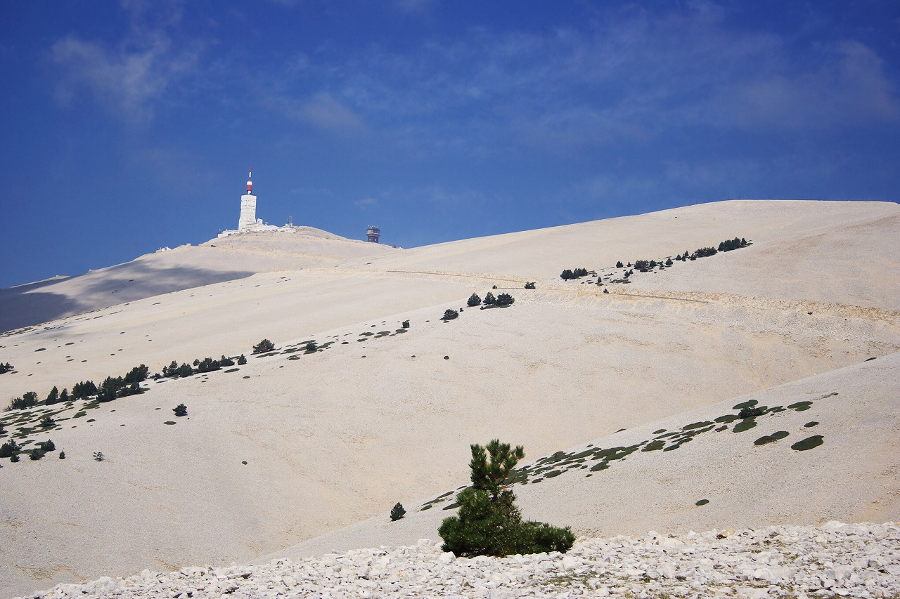 Mont Ventoux (Occitan: Ventor in classical norm or Ventour in Mistralian norm) is a mountain in the Provence region of southern France, located some 20 km north-east of Carpentras, Vaucluse. On the north-side, the mountain borders the Drôme.